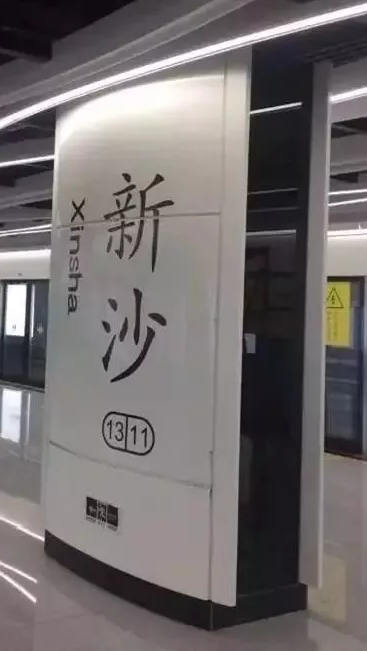 WORD on PILLAR for Xinsha Station in Guangzhou Metro